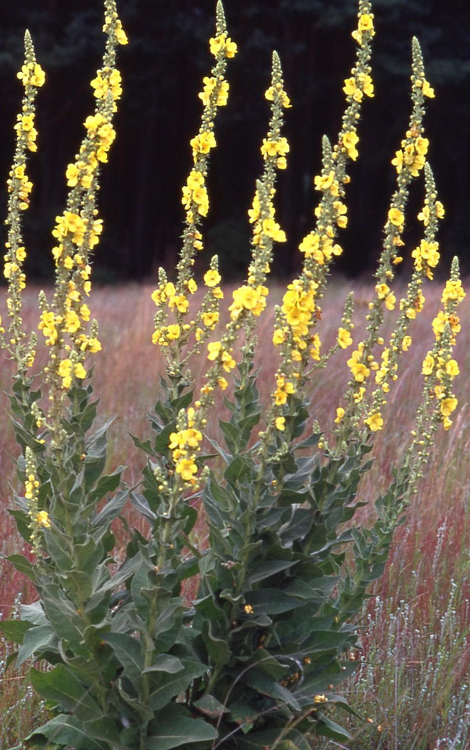 Flowering Verbascum densiflorum.